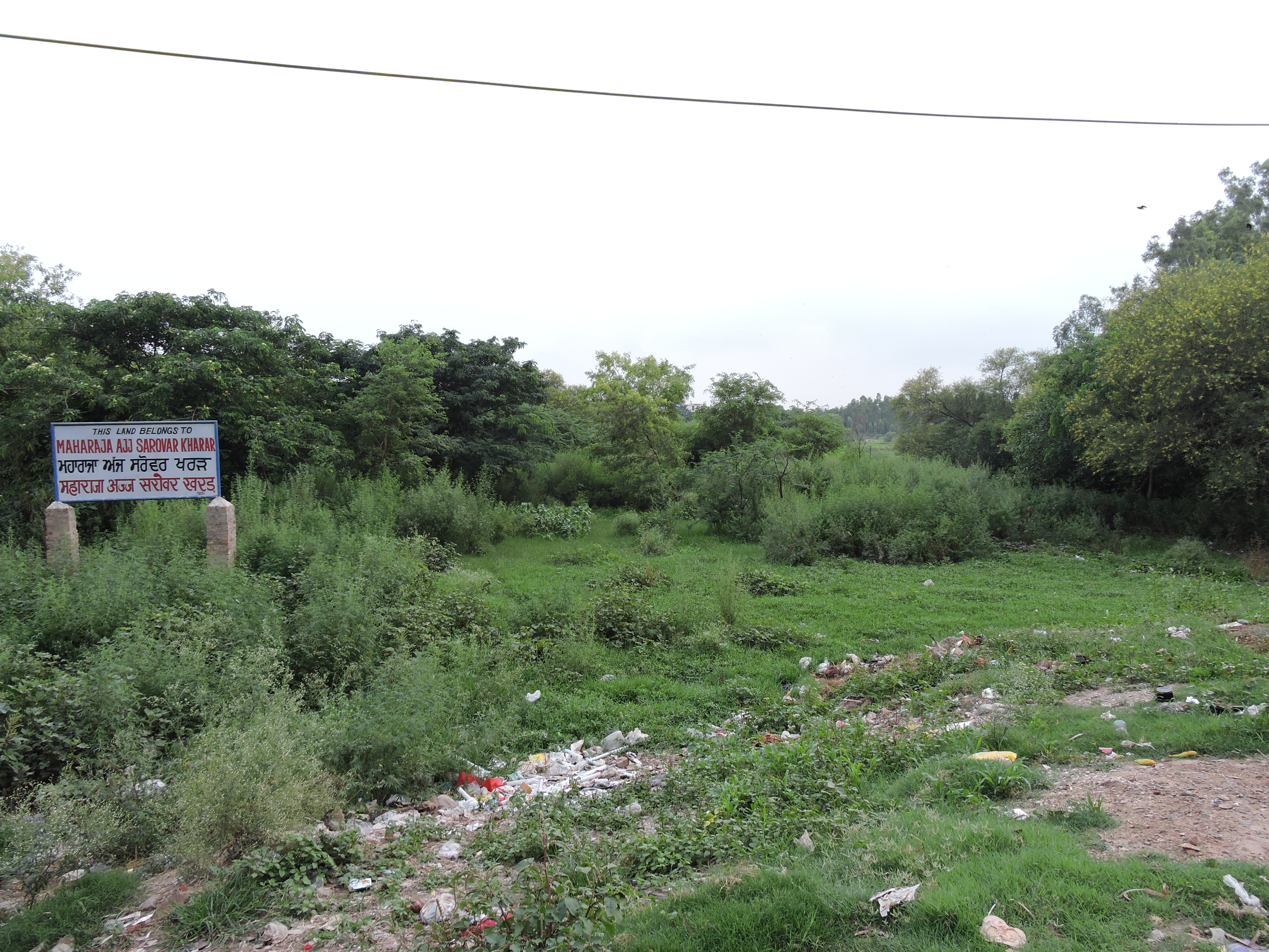 Ajj Srovar,at Kharar town Punajab India, named after Maharaja Ajj, the Grandfathher of Sacred Hindu king , Lord Krisna